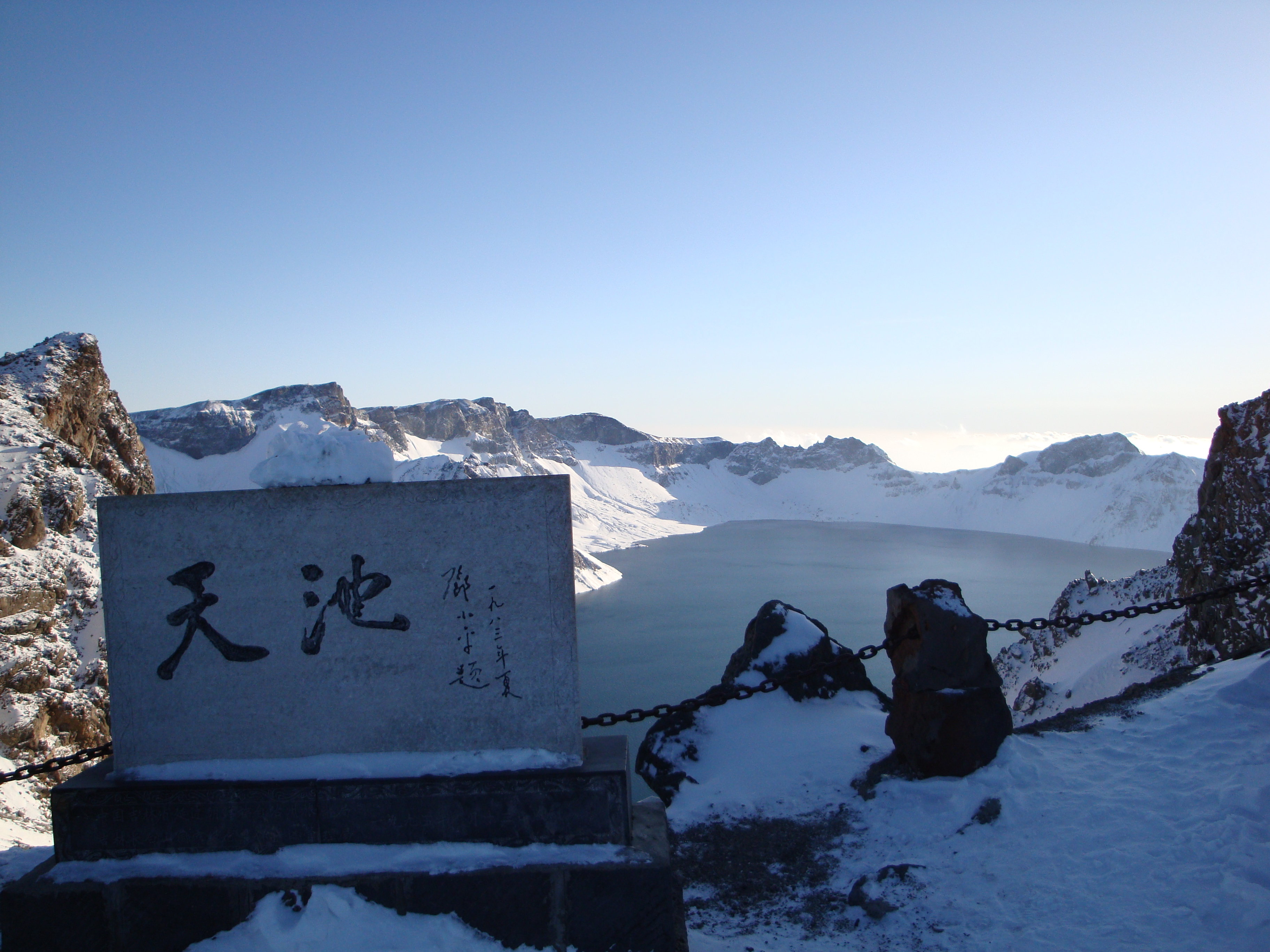 Heaven Lake